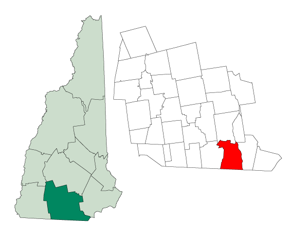 Map of a municipality in Hillsborough County, New Hampshire